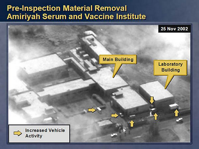 Slide 15 of Colin Powell's presentation at the U.N. Security Council in on 5 Feb 2003, showing a satellite image of the Amiriyah Serum and Vaccine Institute